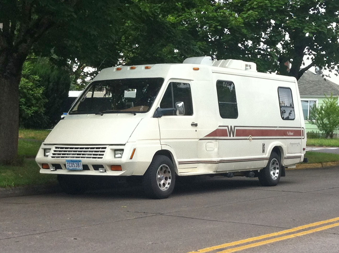 Winnebago Lesharo, late 80s model, parked on the street in Eugene Oregon